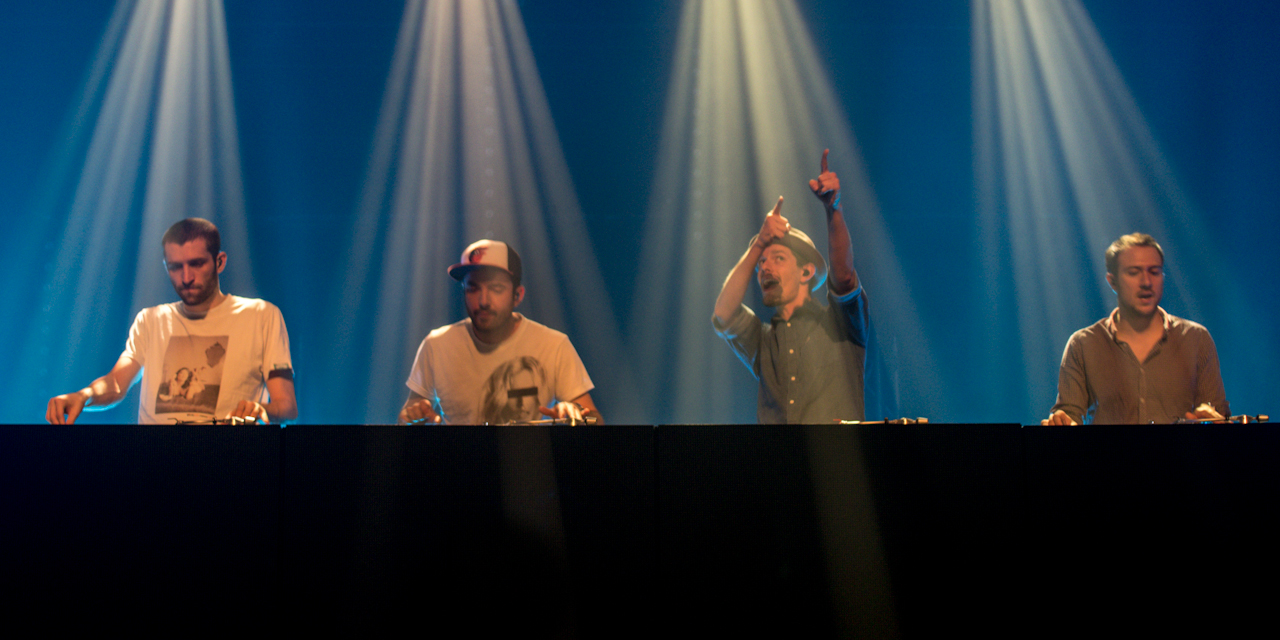 French turntable/dance band C2C performing in le Chabada